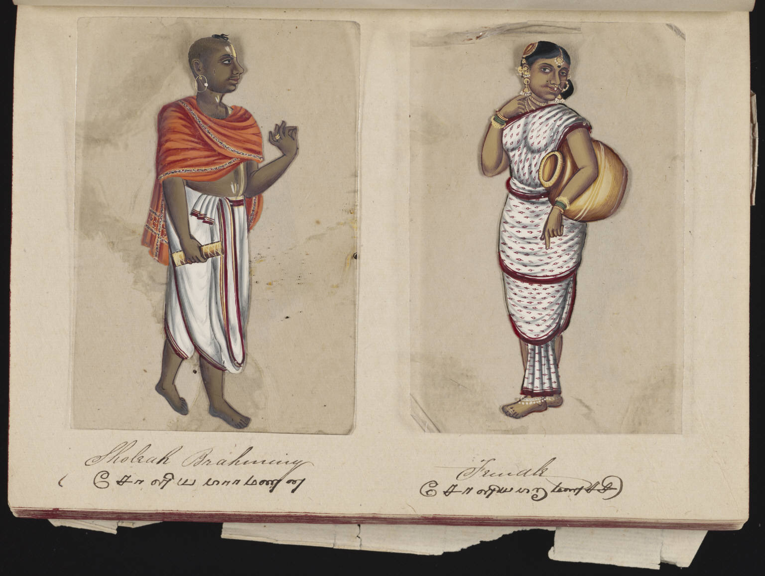 A page from the manuscript Seventy-two Specimens of Castes in India, which consists of 72 full-color hand-painted images of men and women of the various castes and religious and ethnic groups found in Madura, India at that time. Each drawing was made on mica, a transparent, flaky mineral which splits into thin, transparent sheets. As indicated on the presentation page, the album was compiled by the Indian writing master at an English school established by American missionaries in Madura, and given to the Reverend William Twining. The manuscript shows Indian dress and jewelry adornment in the Madura region as they appeared before the onset of Western influences on South Asian dress and style. Each illustrated portrait is captioned in English and in Tamil, and the title page of the work includes English, Tamil, and Telugu.